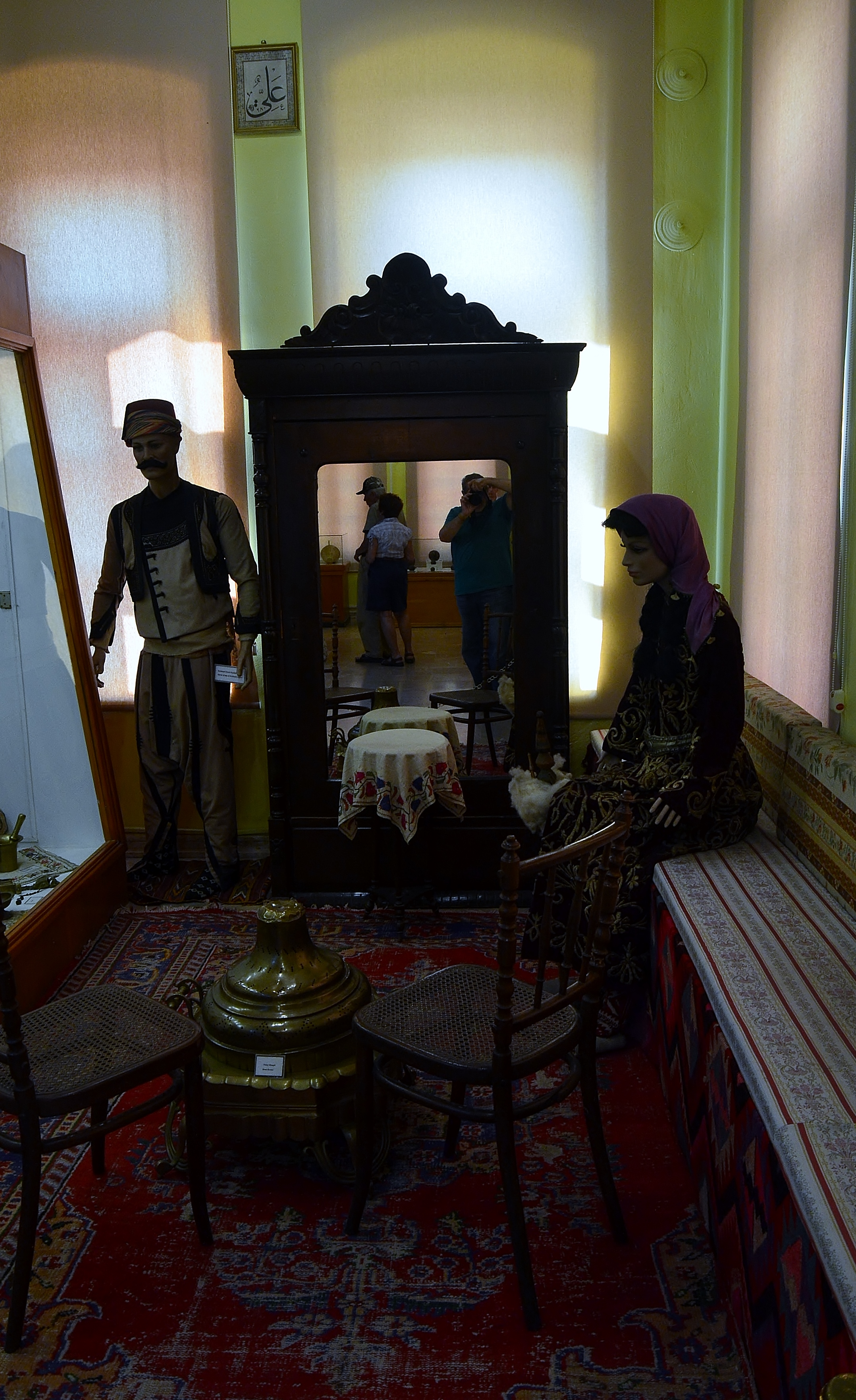 A typical houshold in the Ethnography section of Kırklareli Museum